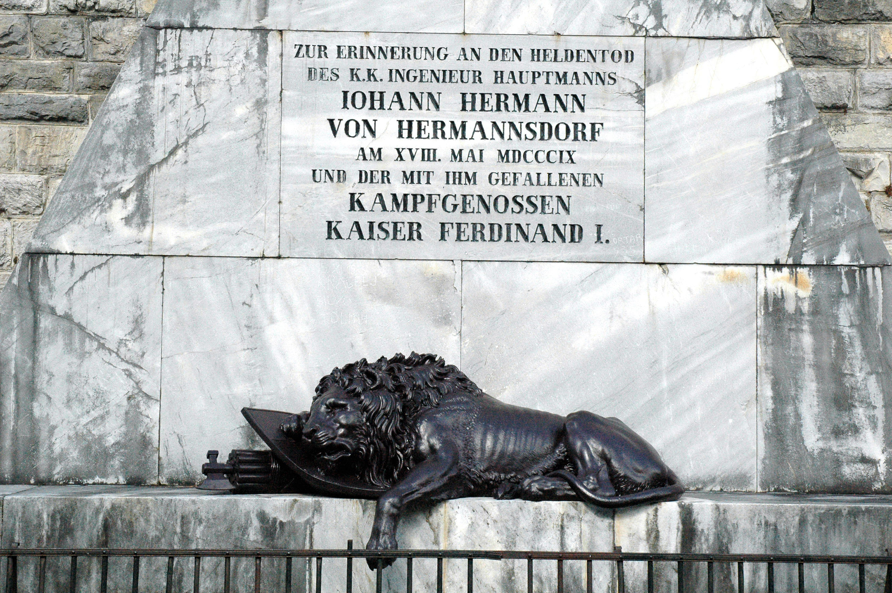 War monument "Sleeping lion" for Captain Hermann v. Hermansdorf (to remind of his heroic death on May 18th, 1809) at fort Predel on the Predil Pass (Mangart and Jalovec in the background), Strmec na Predelu, municipality Bovec, Slovenia, EU